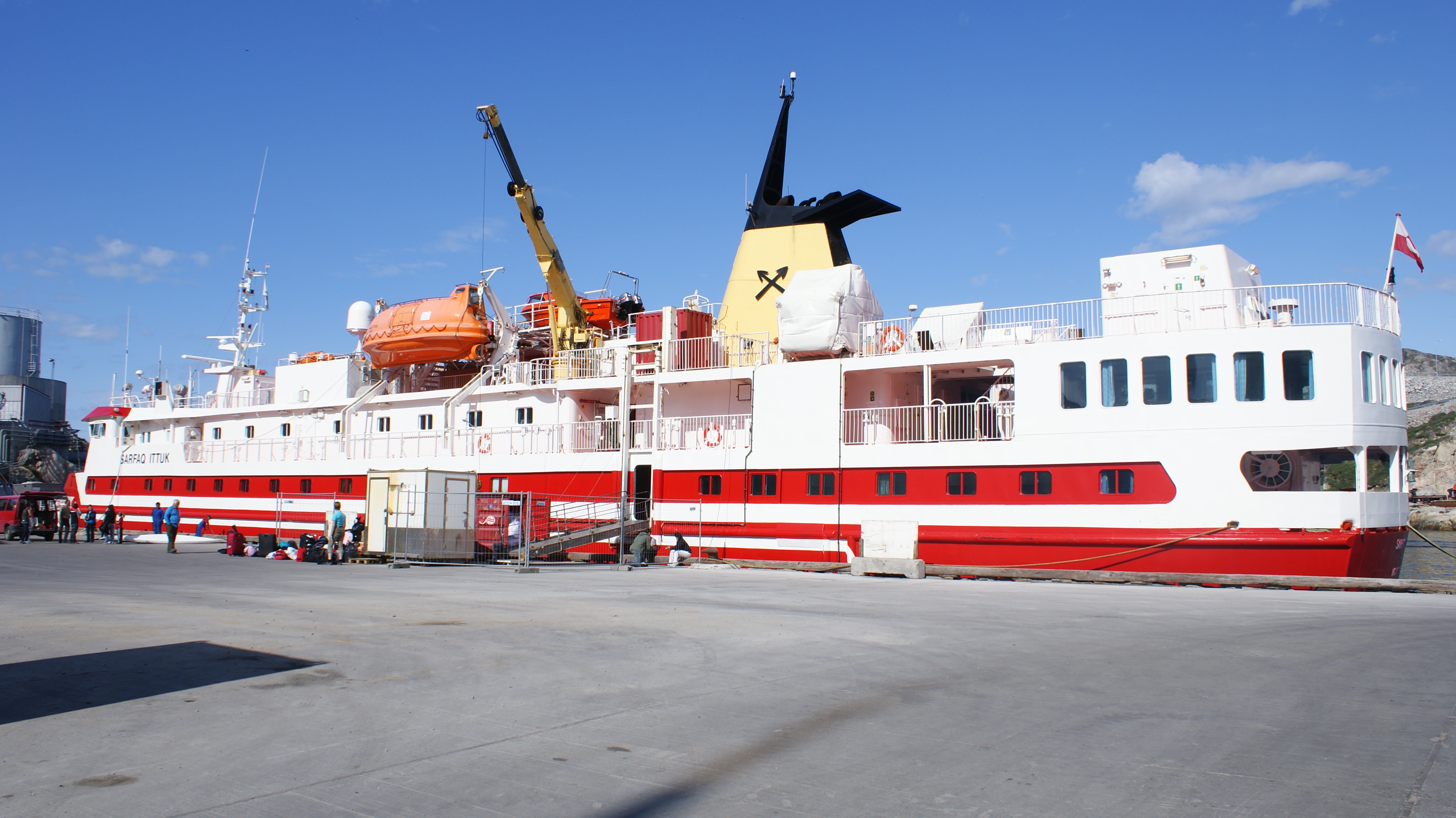 Sarfaq Ittuk of Arctic Umiaq moored at Ilulissat port, Greenland.